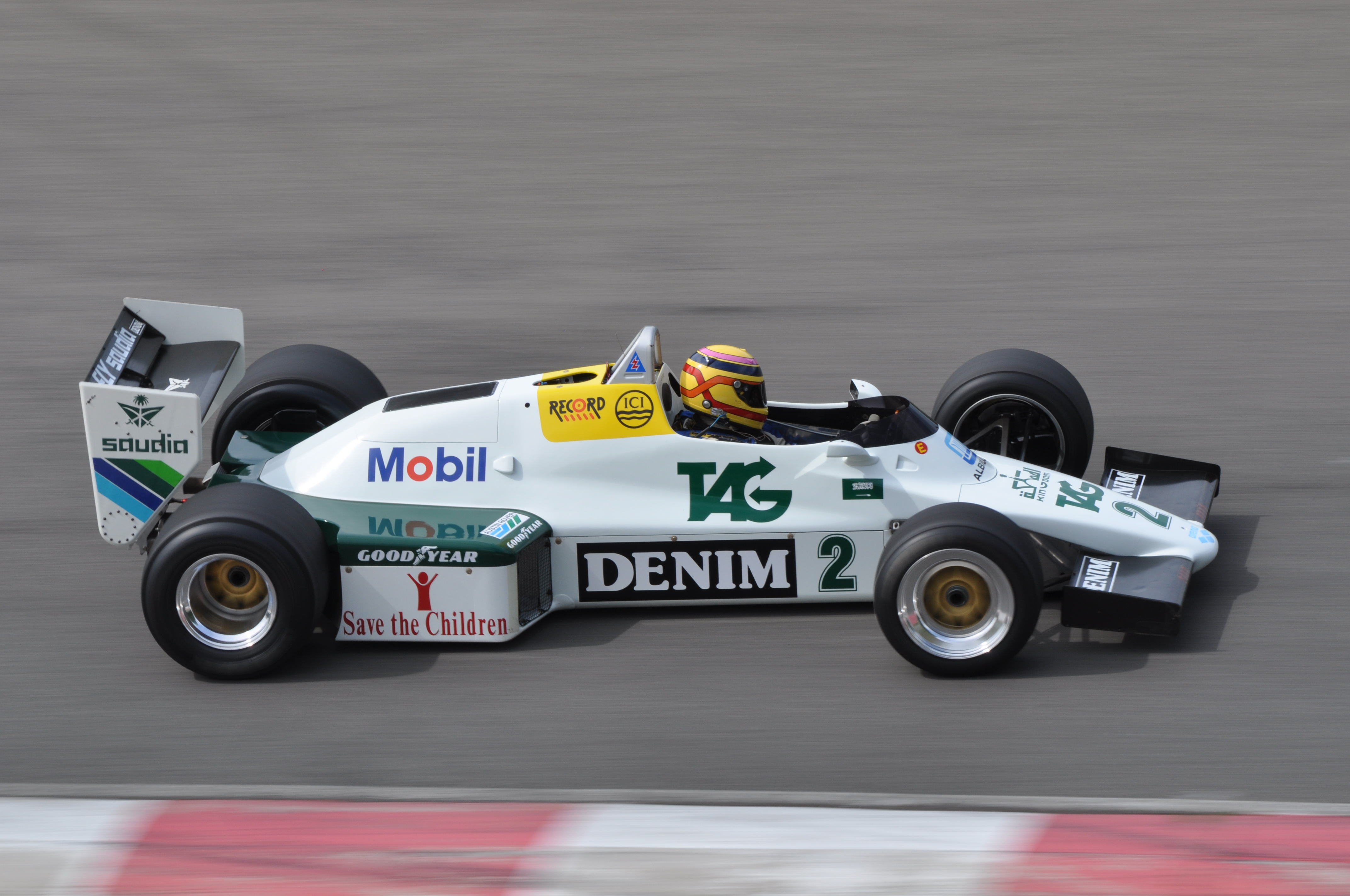 Dean Baker driving a Williams FW08C Formula One racing car, at Circuit Mont-Tremblant during the 2010 Legends of Motorsport meeting.